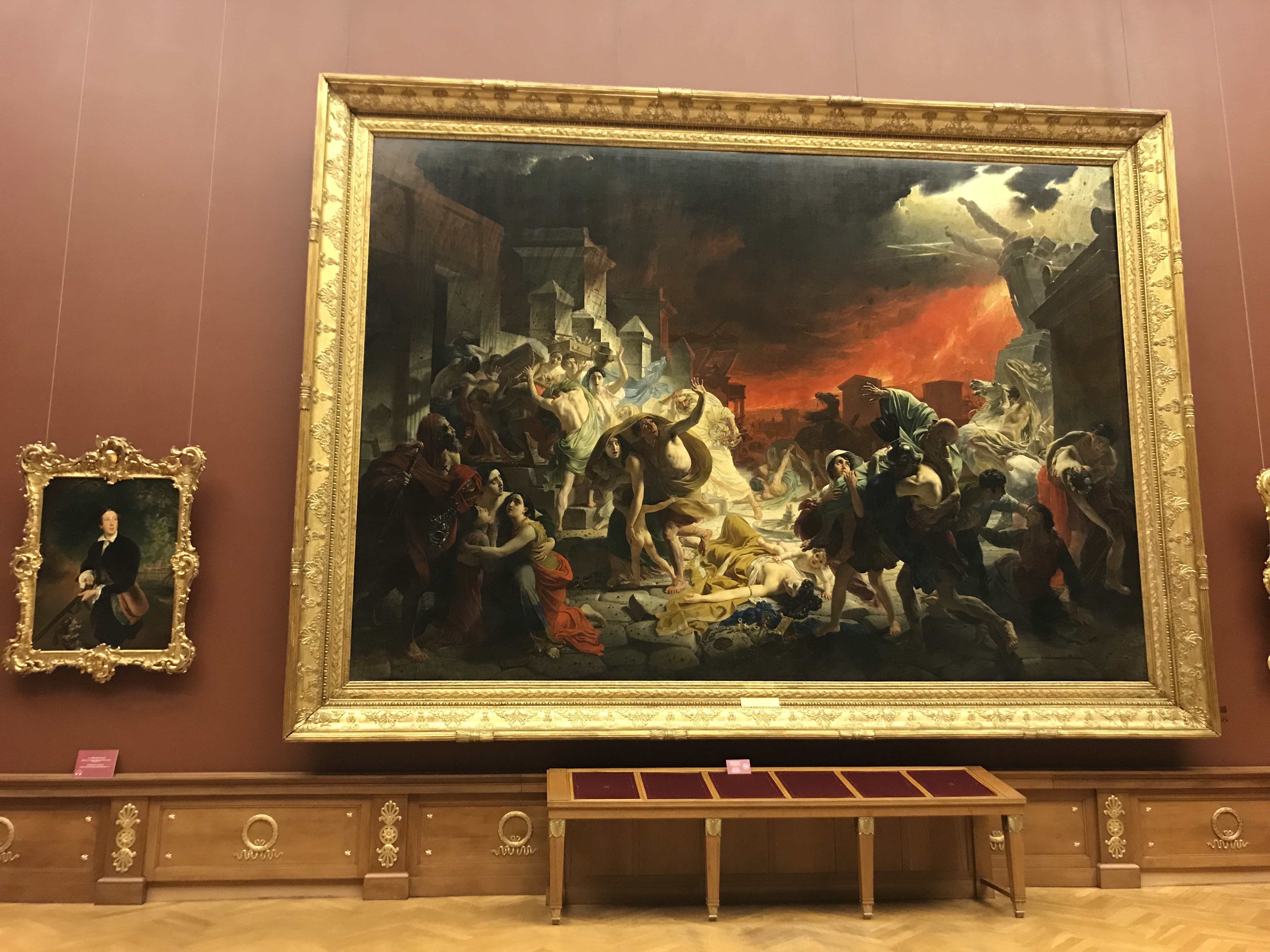 "The last day of Pompeii" (painting by Karl Bryullov, 1830-1833) in the State Russian Museum